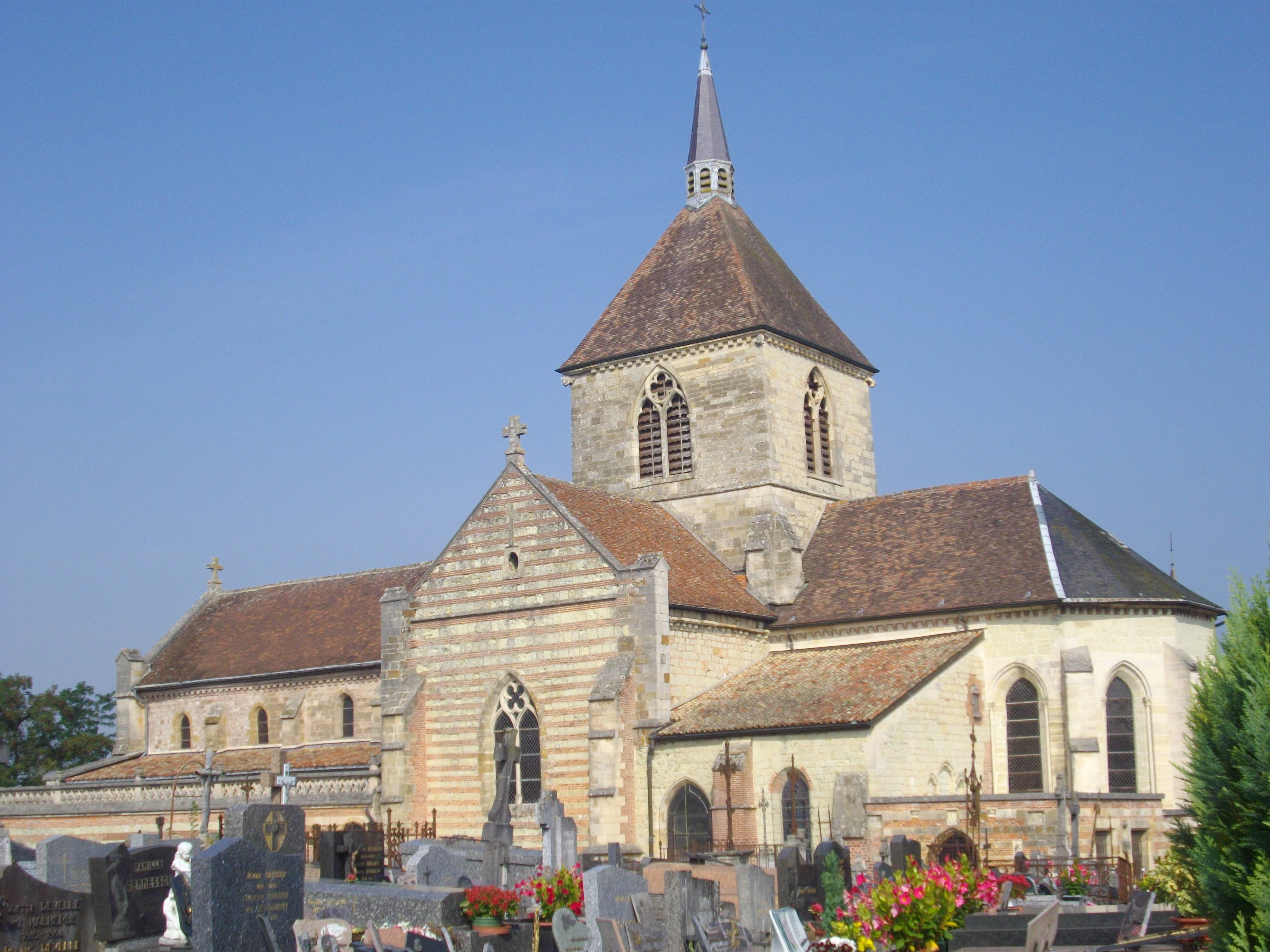 Our Lady church of Sainte-Menehould (Marne, France) .